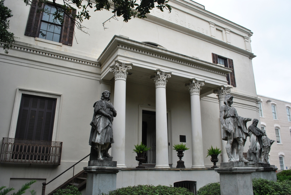 Telfair Academy of Arts and Sciences